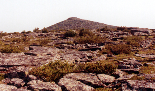 Sorsatunturi fell in Salla, Finland.